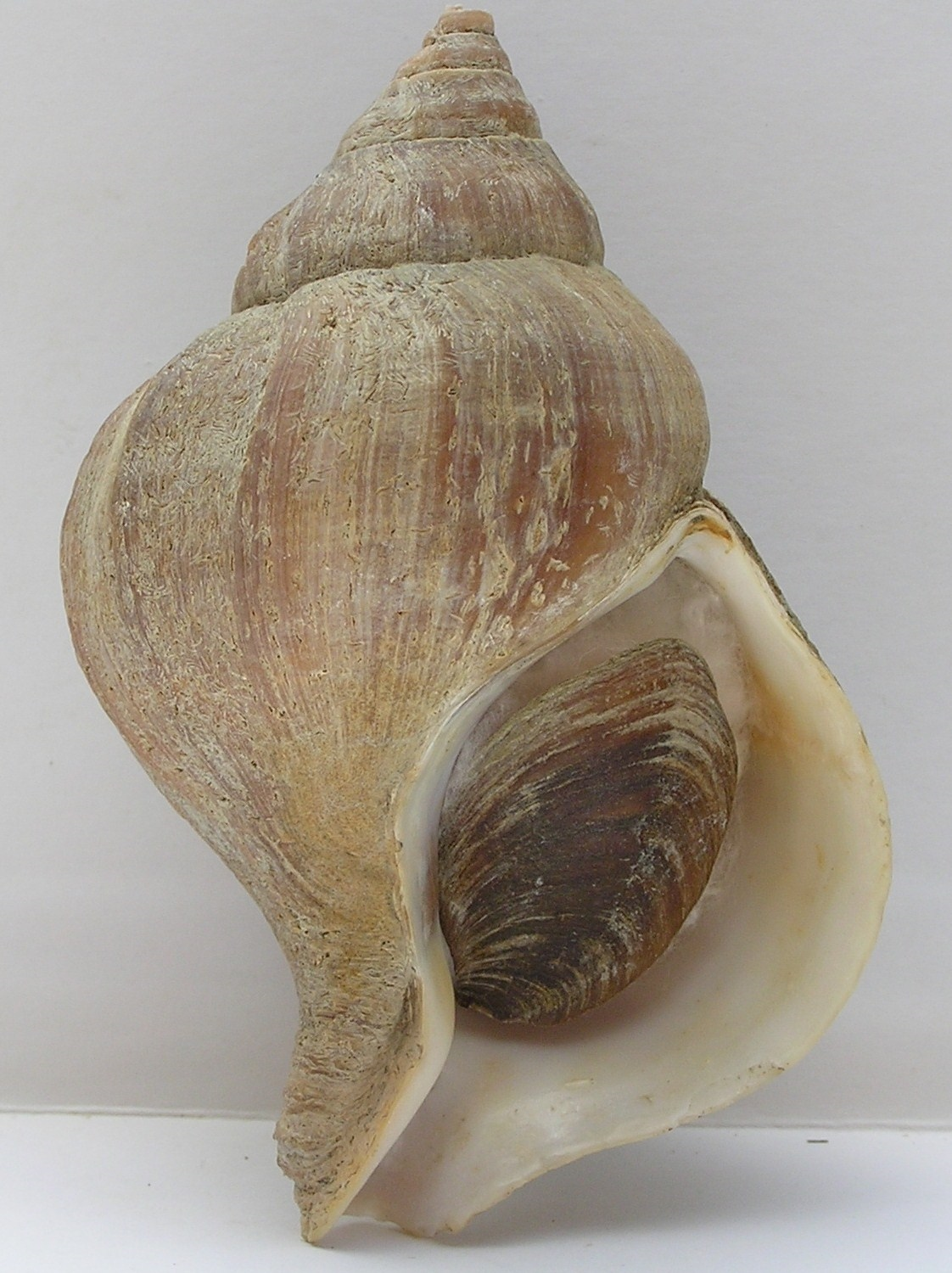 Neptunea beringiana (Middendorff, 1848) , a true whelk in the family Buccinidae